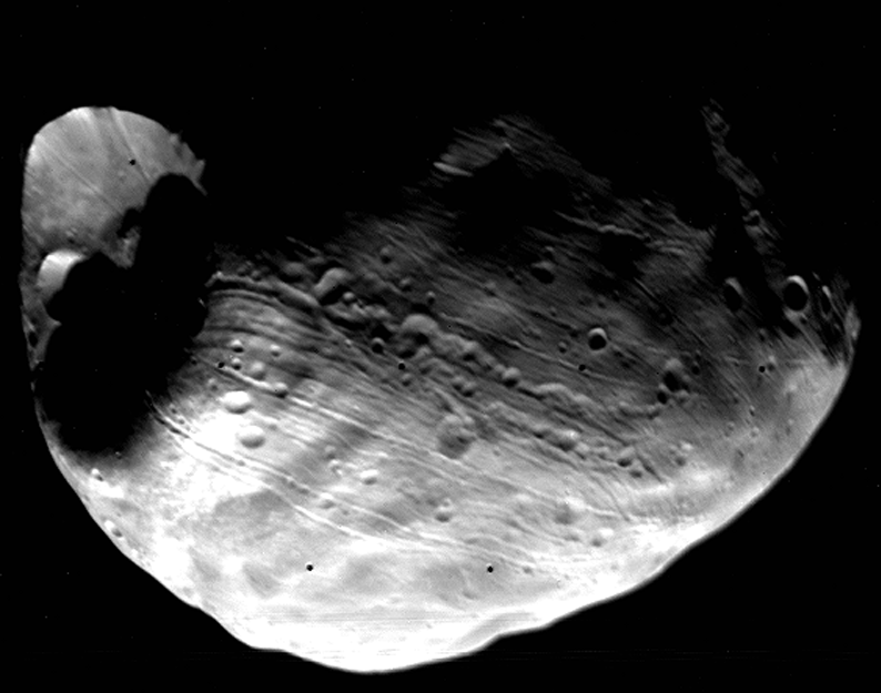 Viking 1 Orbiter global view of the Martian satellite Phobos. The 10 km diameter Stickney crater is at the left, centered at 5 S, 55 W. The Mars facing point is at the bottom center of Phobos, and the north pole is at about 1:00 from this point. Radiating grooves and crater chains can be seen around Stickney. Phobos is roughly 20 km across in this image.